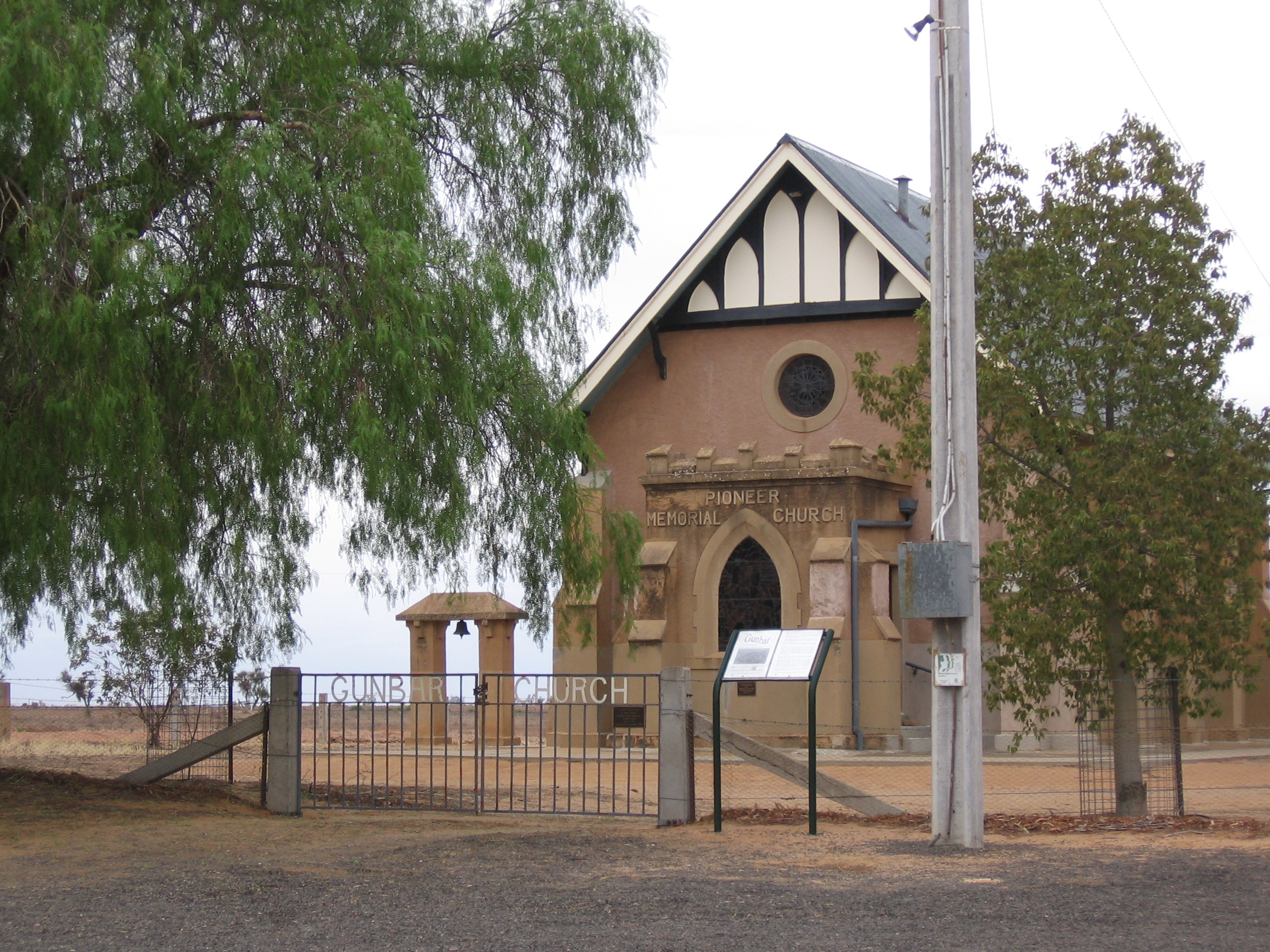 Pioneer Memorial Church at Gunbar, New South Wales